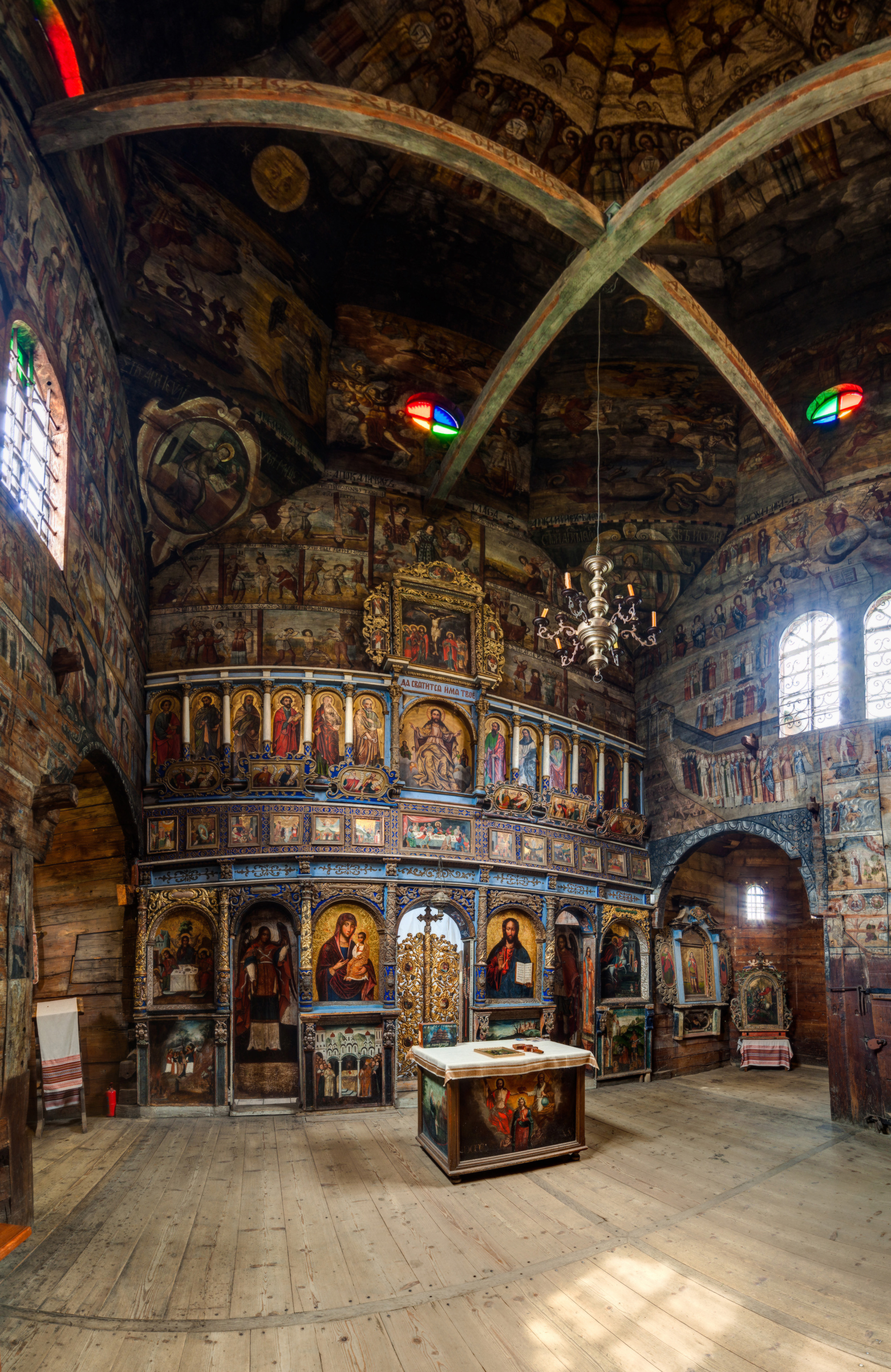 St. George's Church in Drohobych